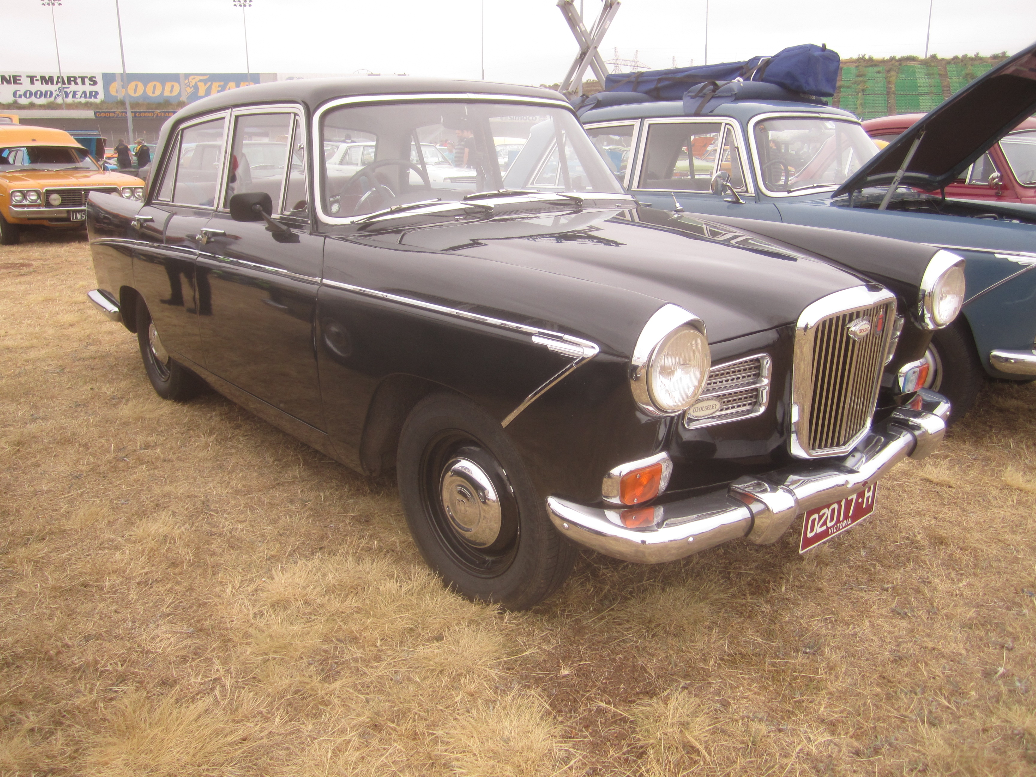 The Mk I was built from 1958-61. It featured taller tail fins than the Mk II and leather seats. The Wolseley got a more luxurious interior than its cousins; the Morris Oxford Series V and Austin Cambridge A55 Mk II, the MG Magnette Mk III got twin carbs and the Riley 4/68 got twin carbs and the Wolseley luxury interior. A 6 cyl version, the 24/80, was produced in Australia from 62-65. The 15/60 was replaced by the 16/60 with less pronounced rear fins.in 1961 Engine; 1489cc 4 cyl with single SU carb